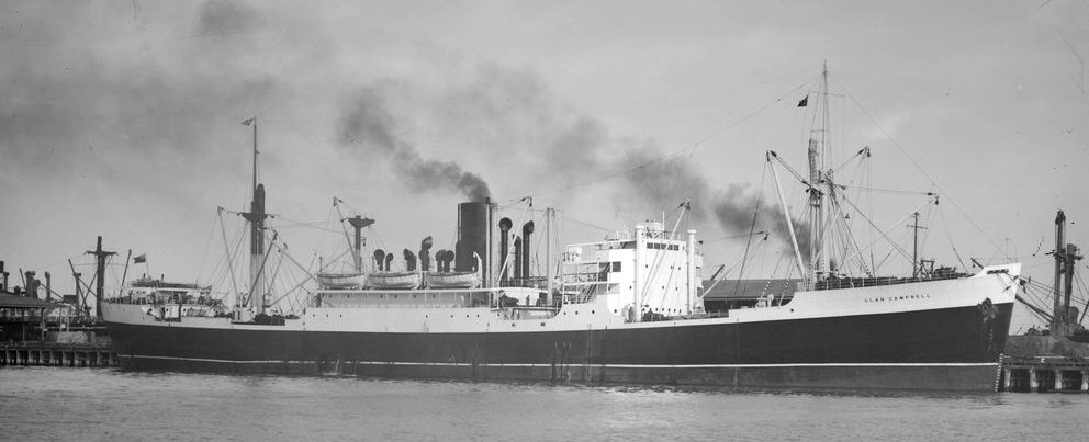 SS Clan Campbell Clan Campbell, 7,255 tons. Built at Greenock in 1937. Bombed and sunk off Malta in 1942 with the loss of 7 lives.[1]